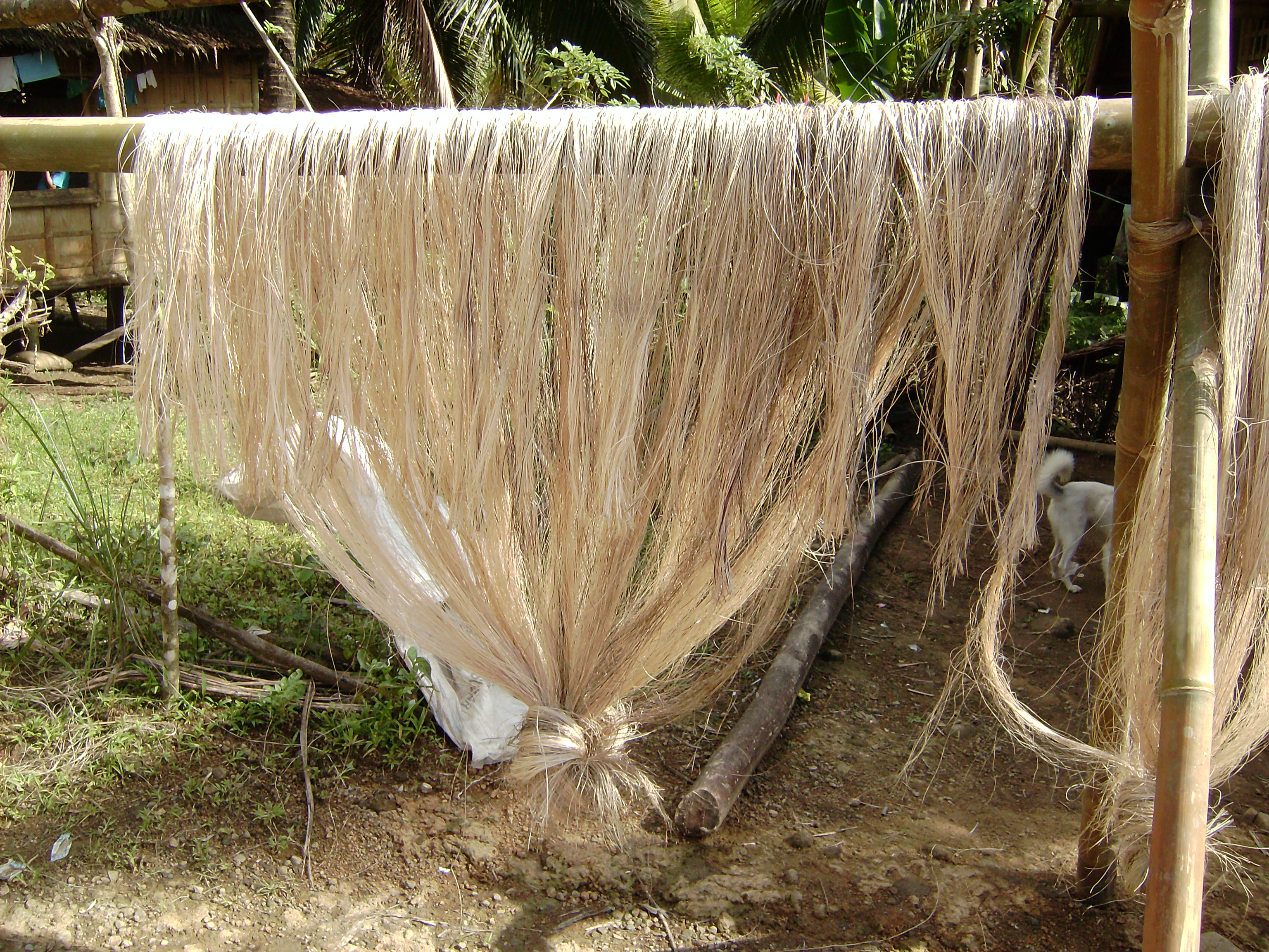 Abacá Fibres in Indonesia